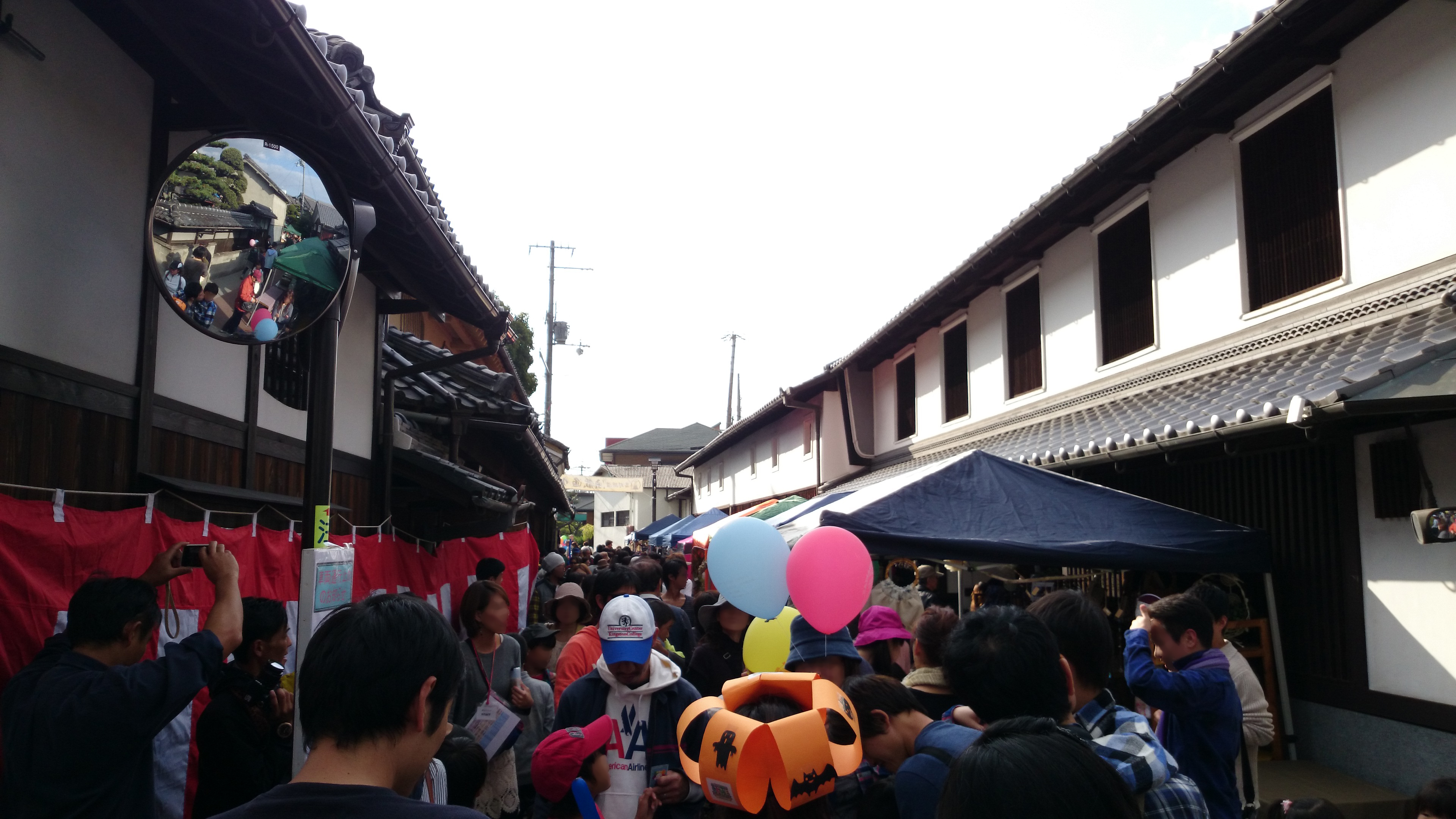 Koya Kaido Matsuri(Festival) at Sakagura douri